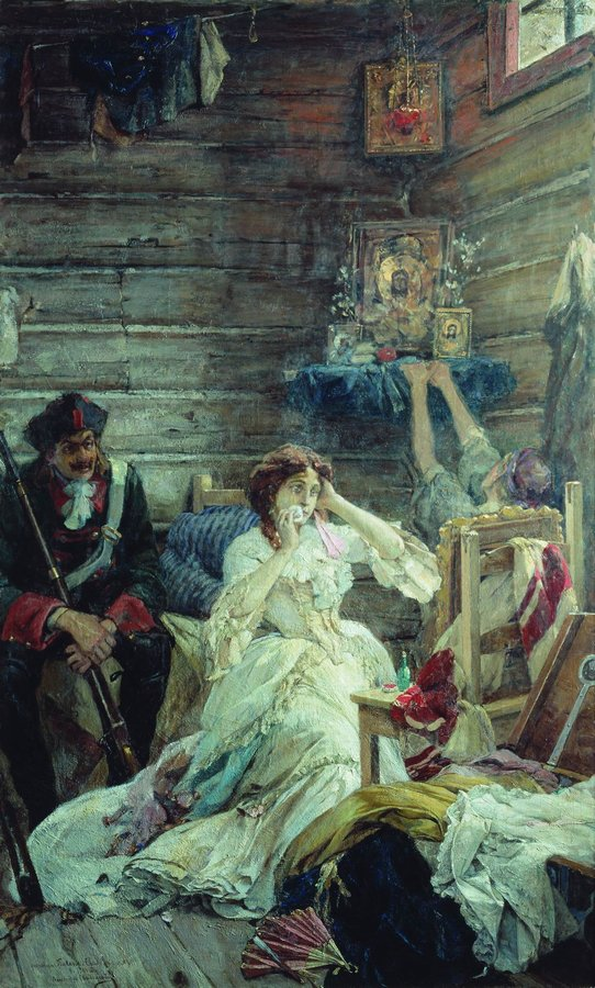 Mary Hamilton before her execution.label QS:Len,"Mary Hamilton before her execution."label QS:Lru,"Мария Гамильтон перед казнью."